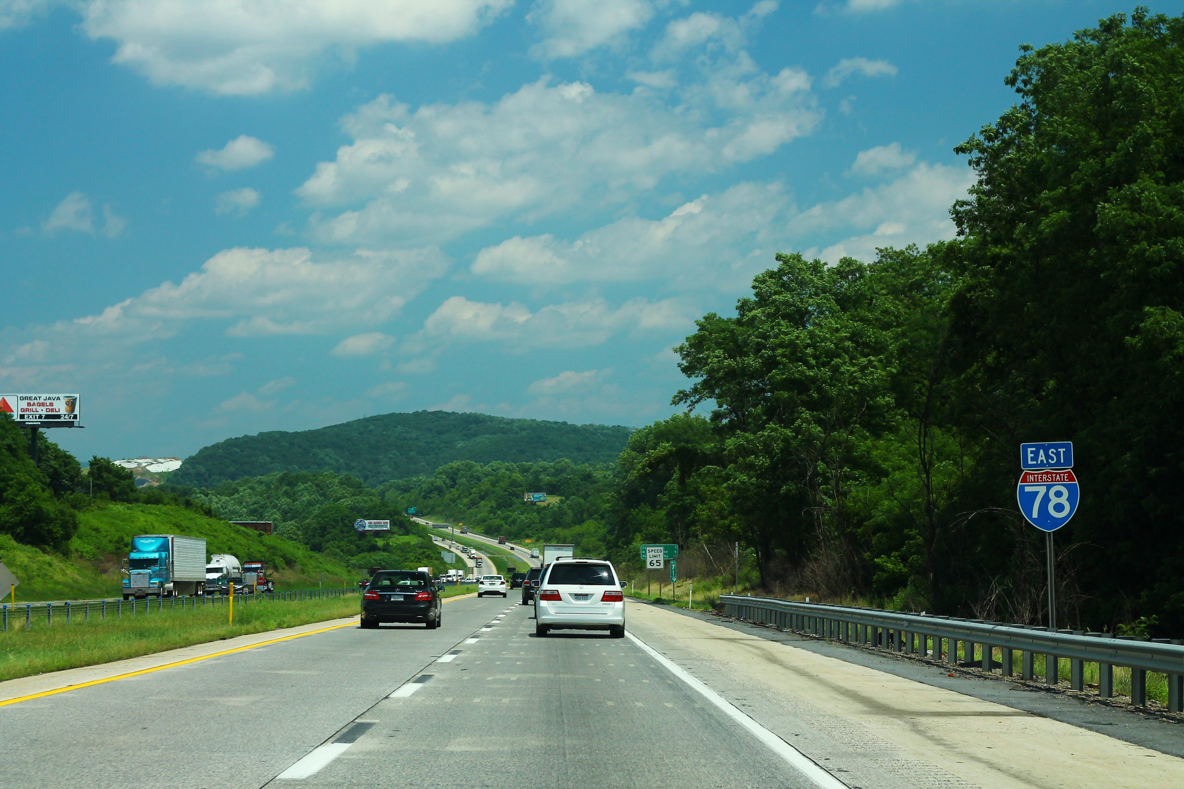 I-78 East Sign - Near PA33